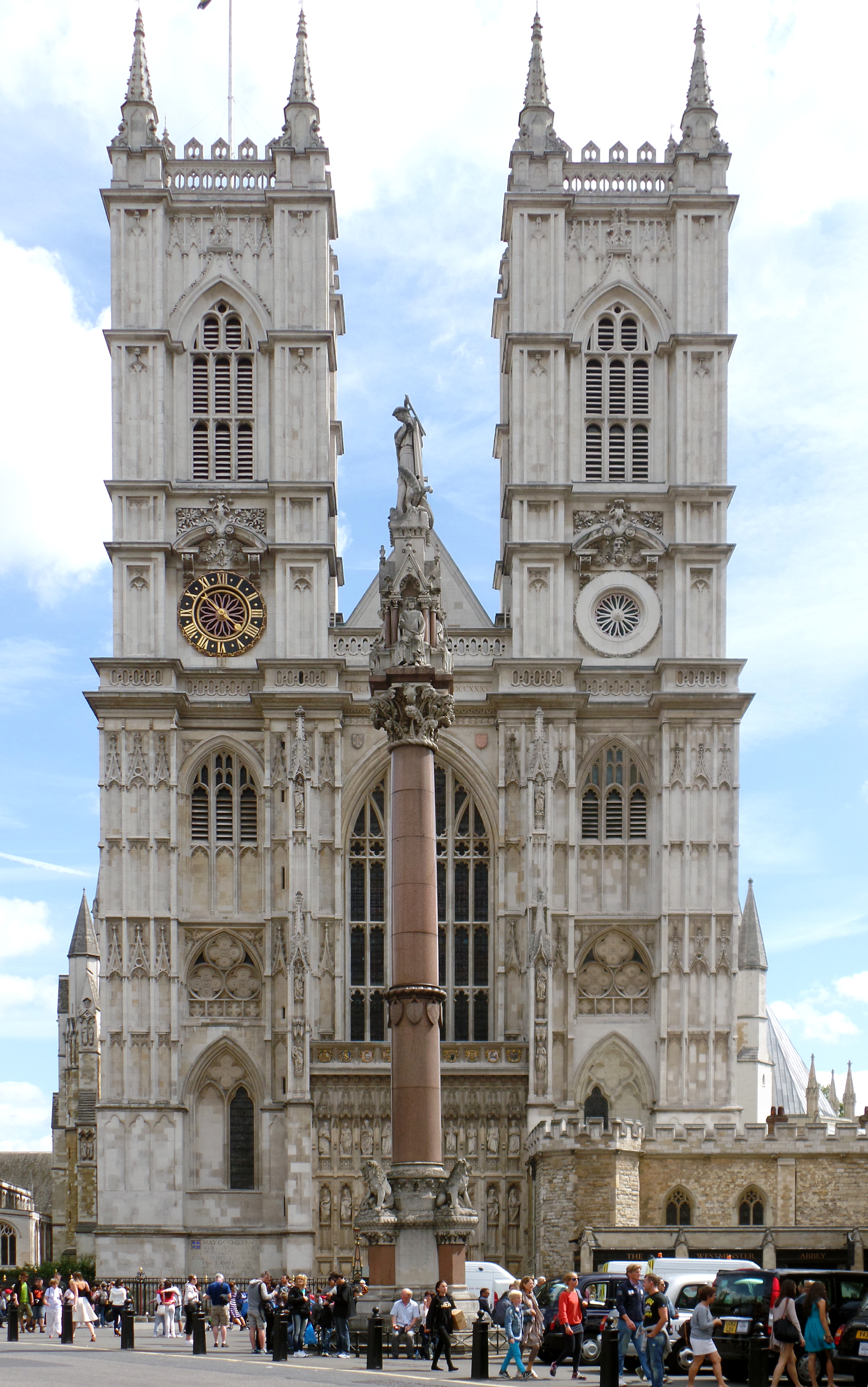 West façade of Westminster Abbey